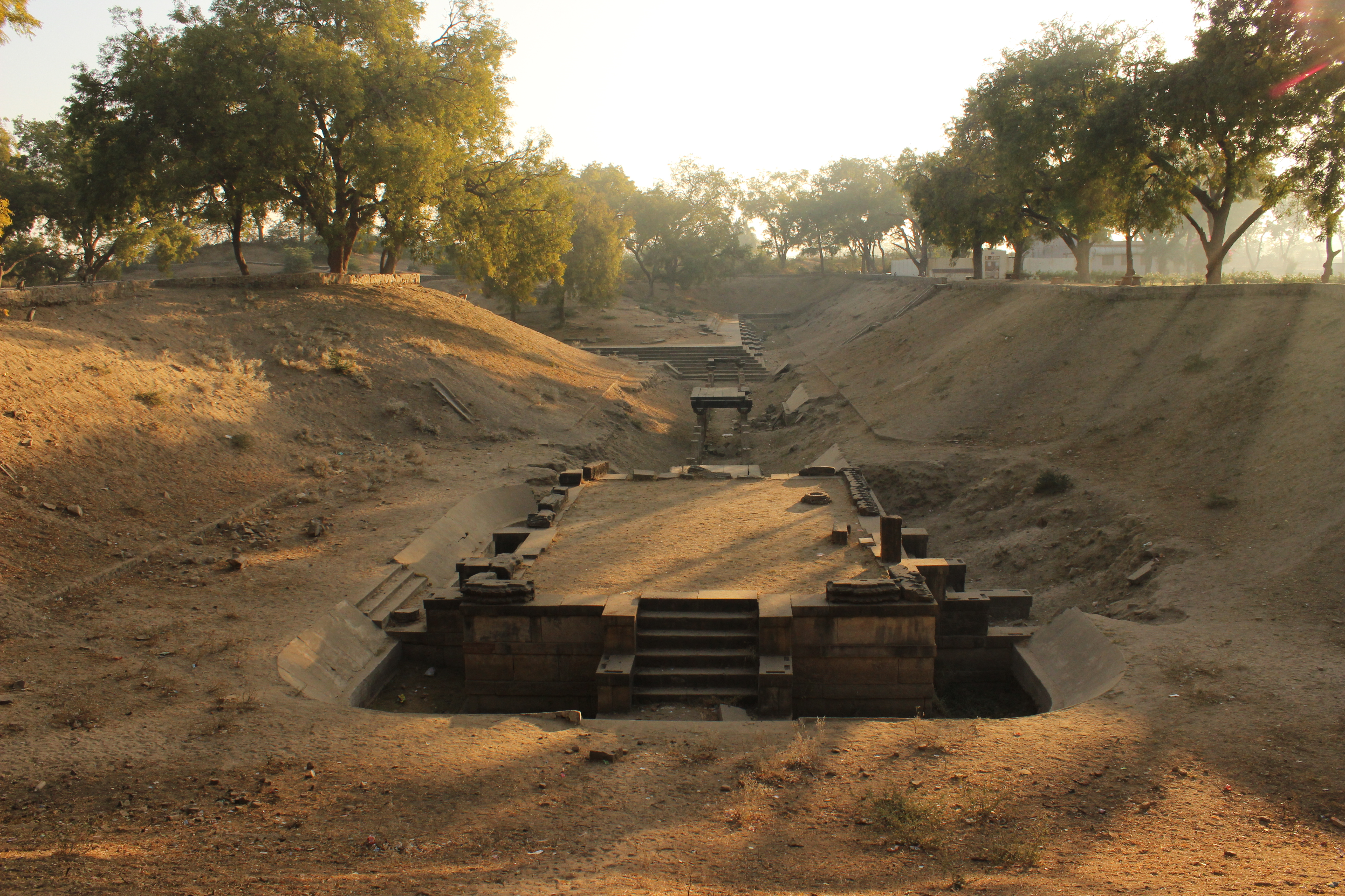 Platform of Sahasralinga Talav